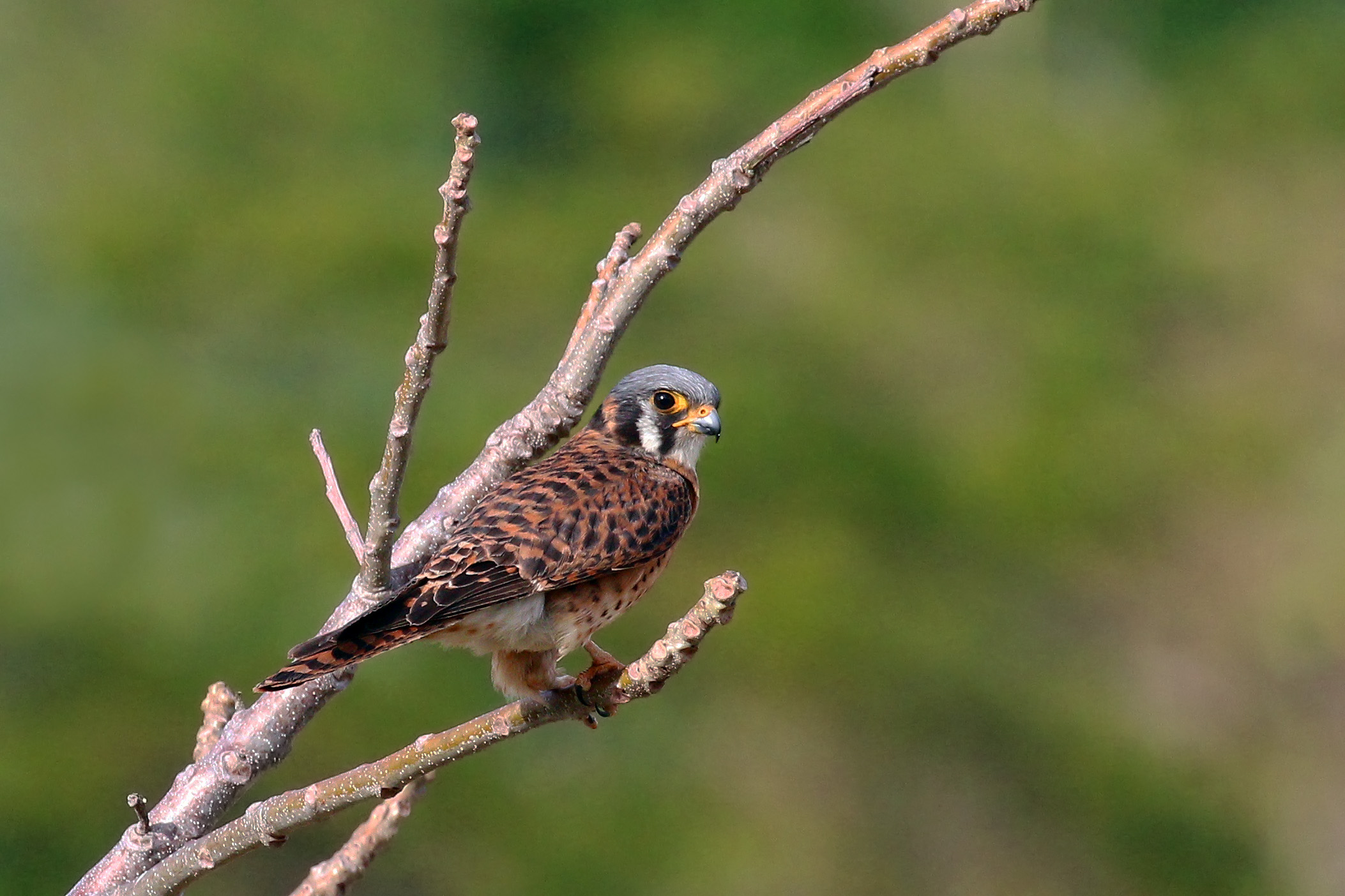 American kestrel (Falco sparverius sparveroides) female white morph, Cuba